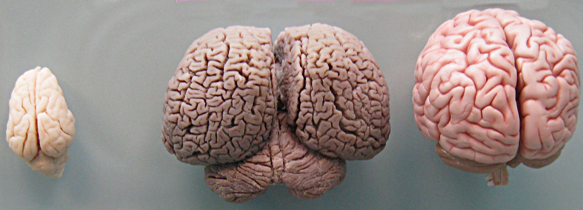 Tursiops truncatus (bottlenose dolphin) brain compared with brains of wild pig (Sus scrofa) and a plastic model of a human brain (Homo sapiens).